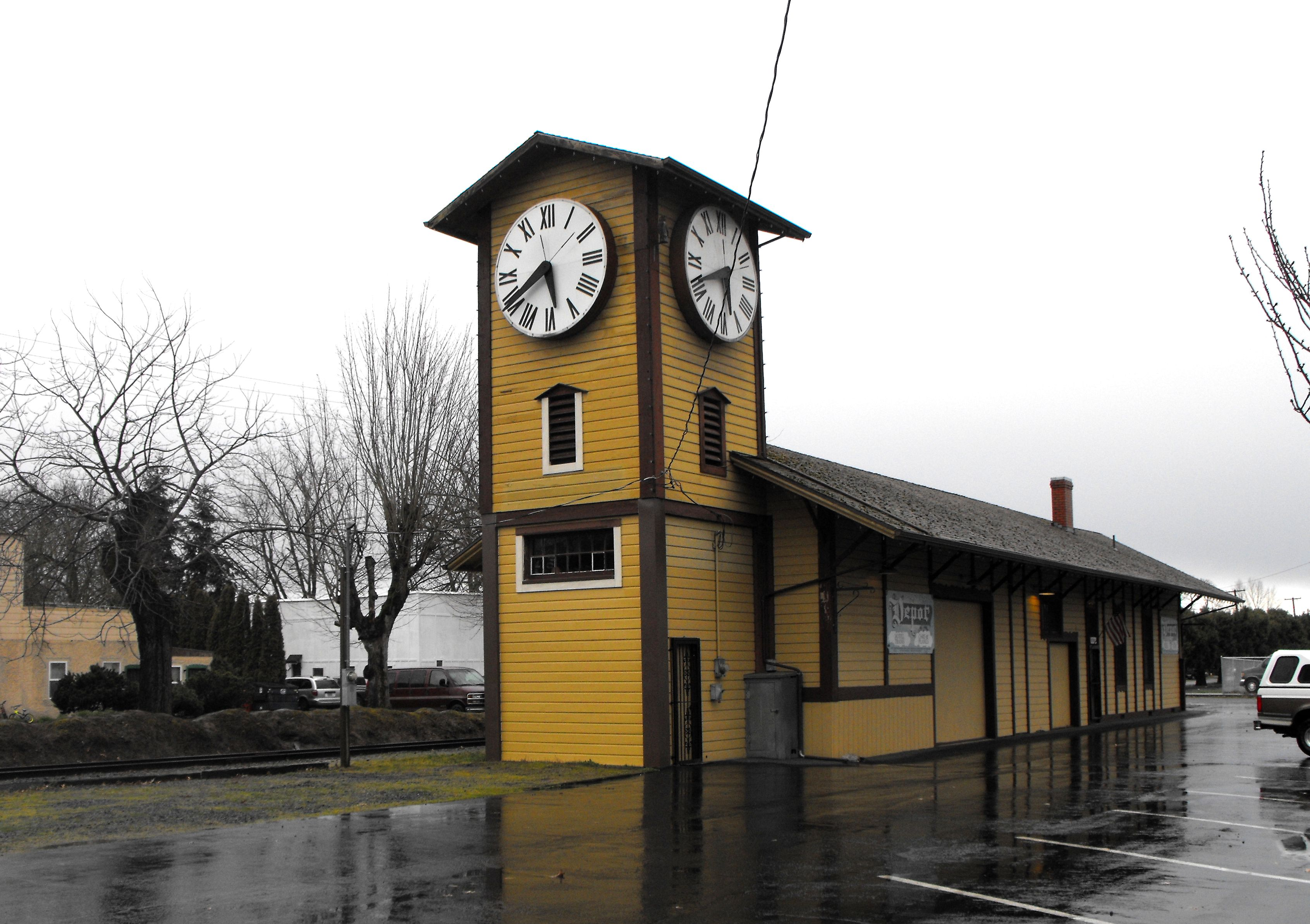 Mt. Angel Railway station